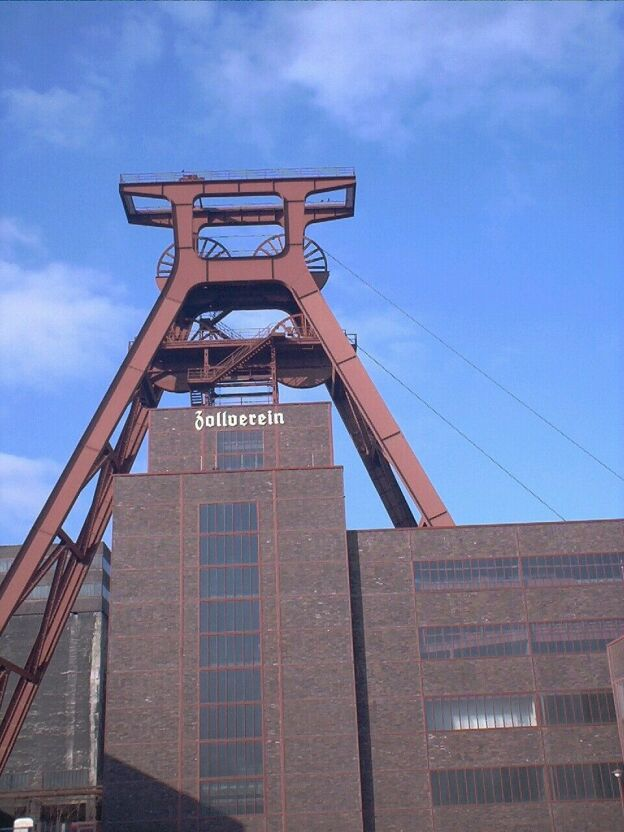 Zeche Zollverein, Essen, Germany